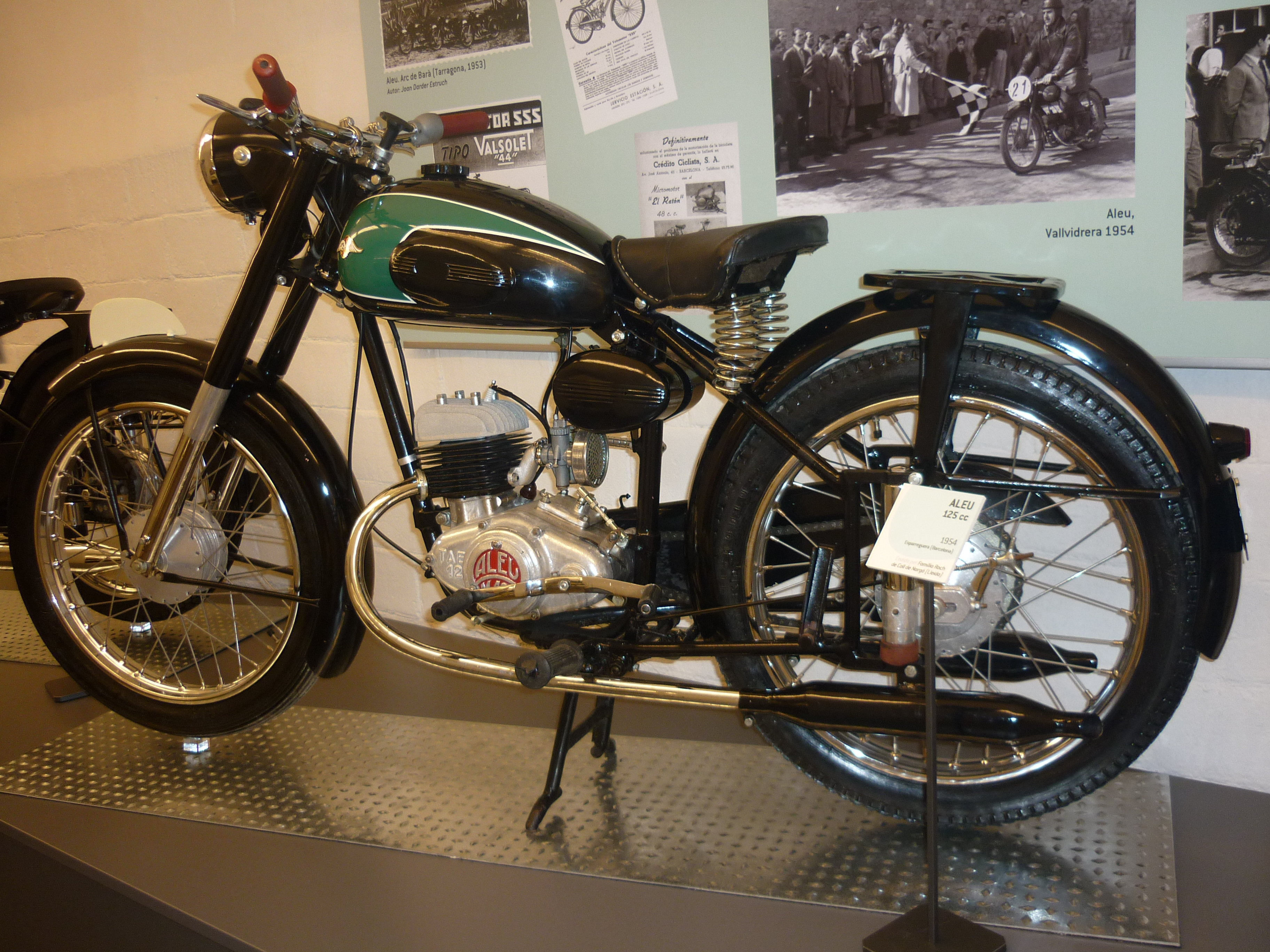 Aleu M-125 125cc (1954).Museu de la Moto de Barcelona (Catalonia).